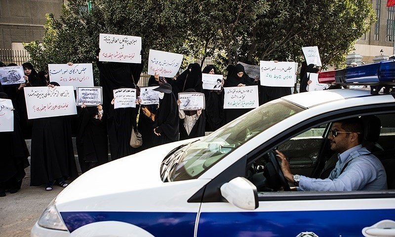 Iranian protesters against Joint Comprehensive Plan of Action (JCPOA) law behind Iranian Parliament